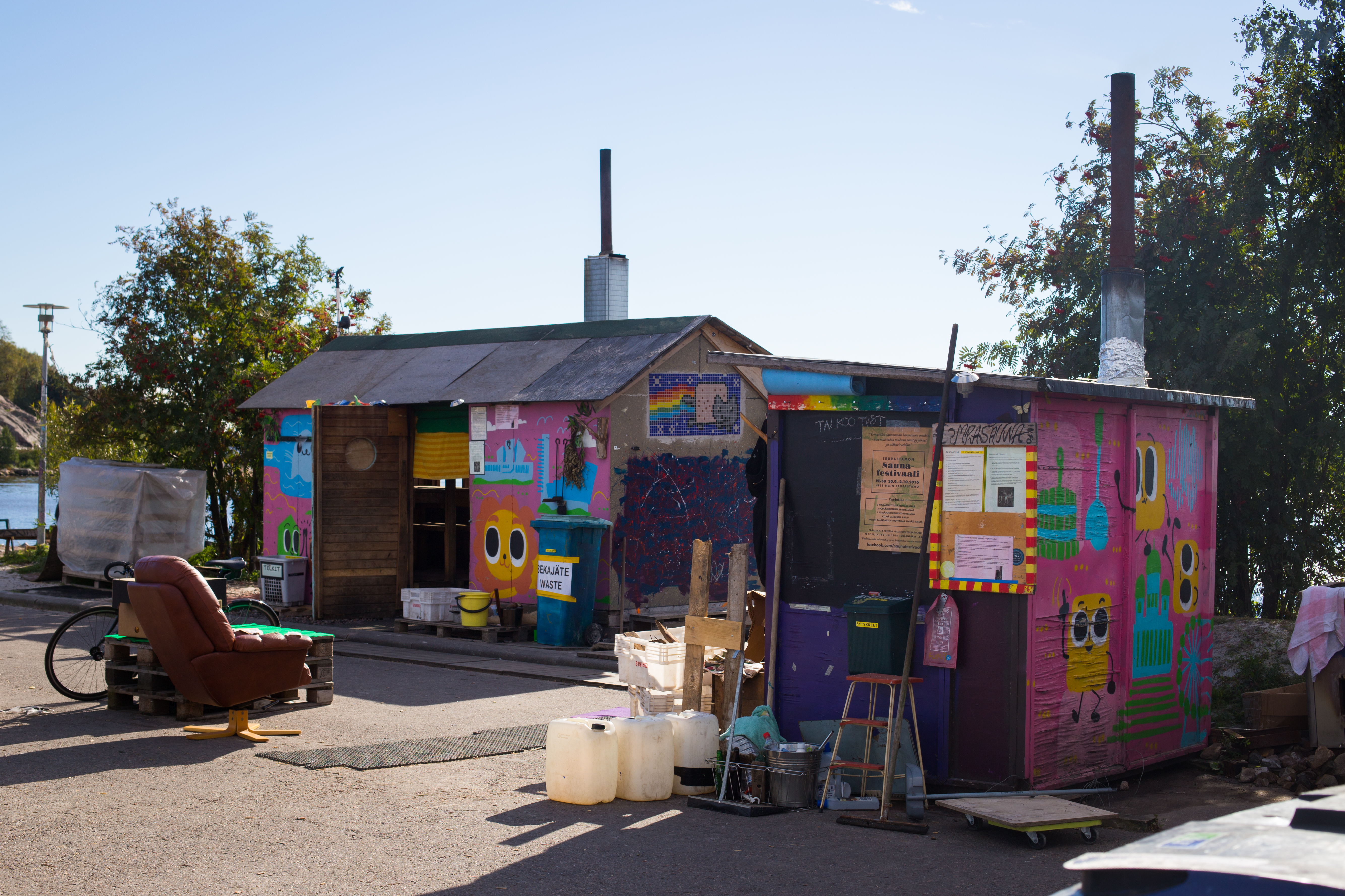 Sompasauna, a free-to-use public sauna in Sompasaari, Helsinki.